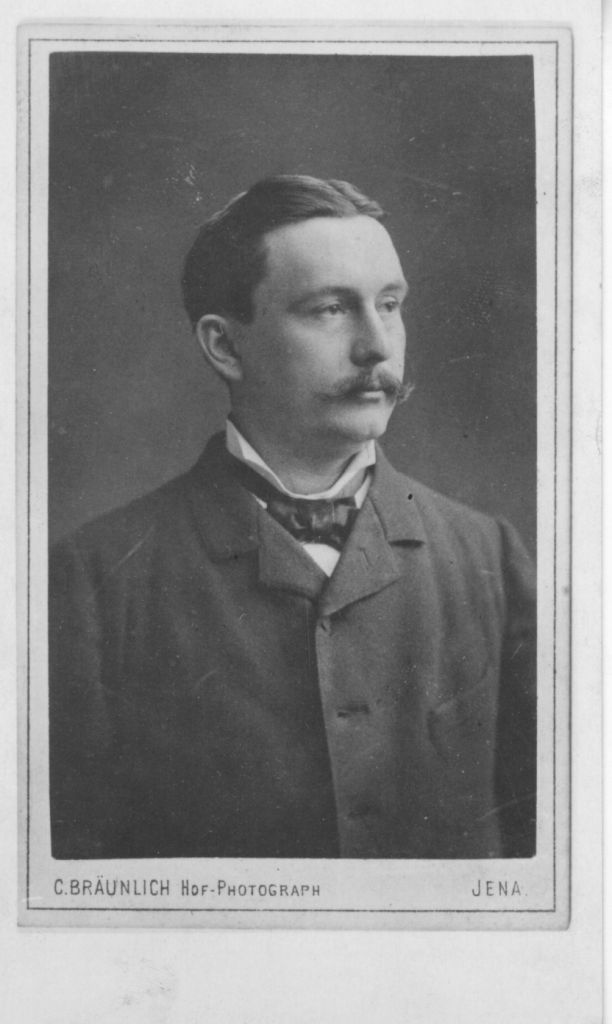 Otto Schott Images donated as part of a GLAM collaboration with Carl Zeiss Microscopy - please contact Andy Mabbett for details.